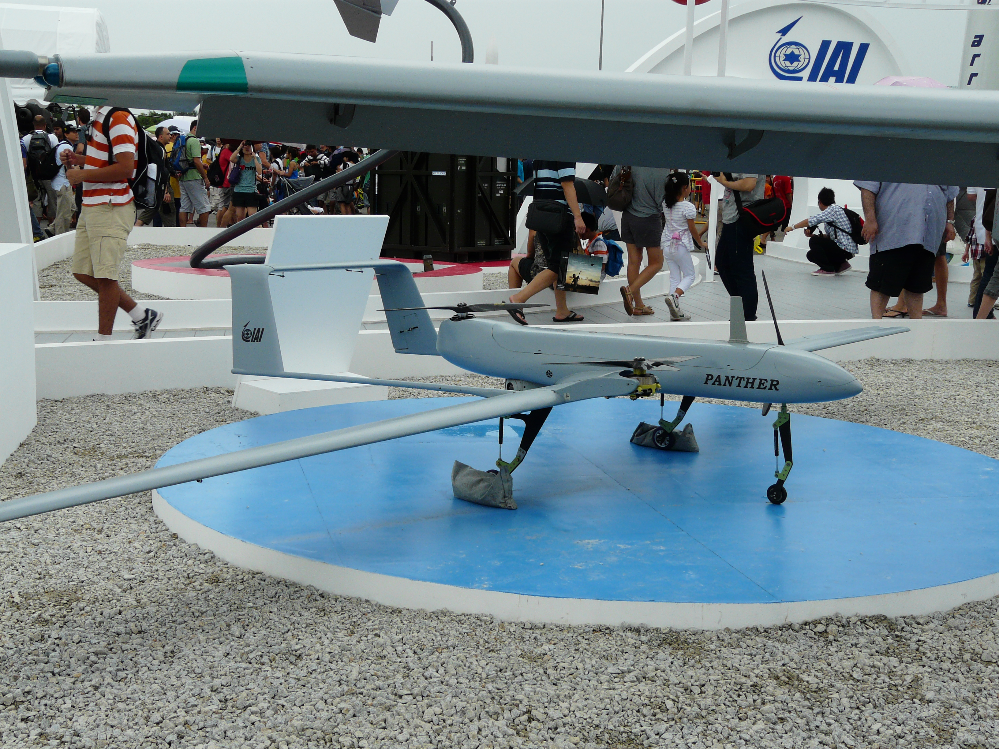 A display model of the IAI Panther on display at the Singapore Airshow 2012. Proposed link for use